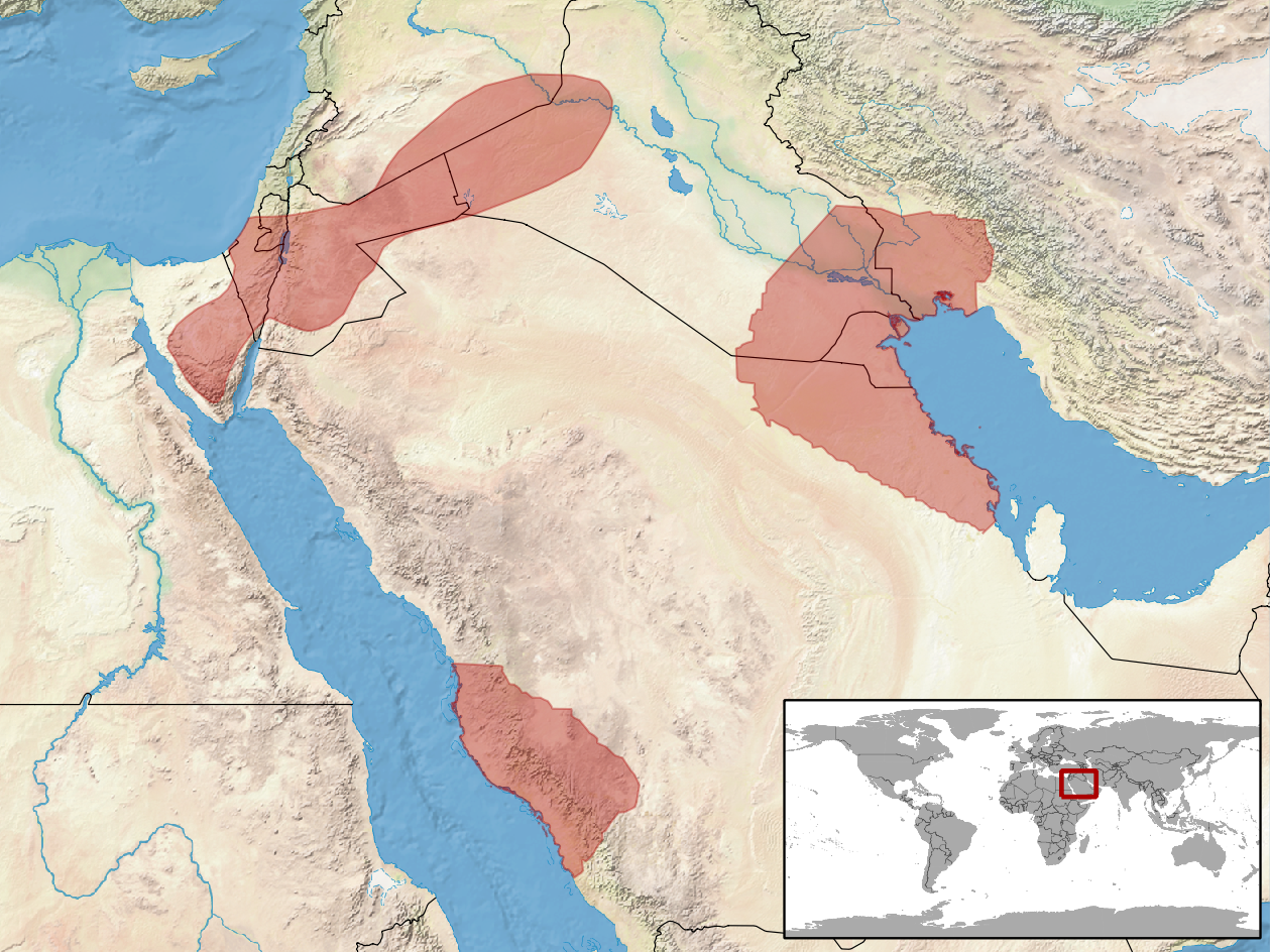 geographic distribution of Eirenis coronella (Native: Egypt; Iraq; Israel; Jordan; Saudi Arabia; Syrian Arab Republic)